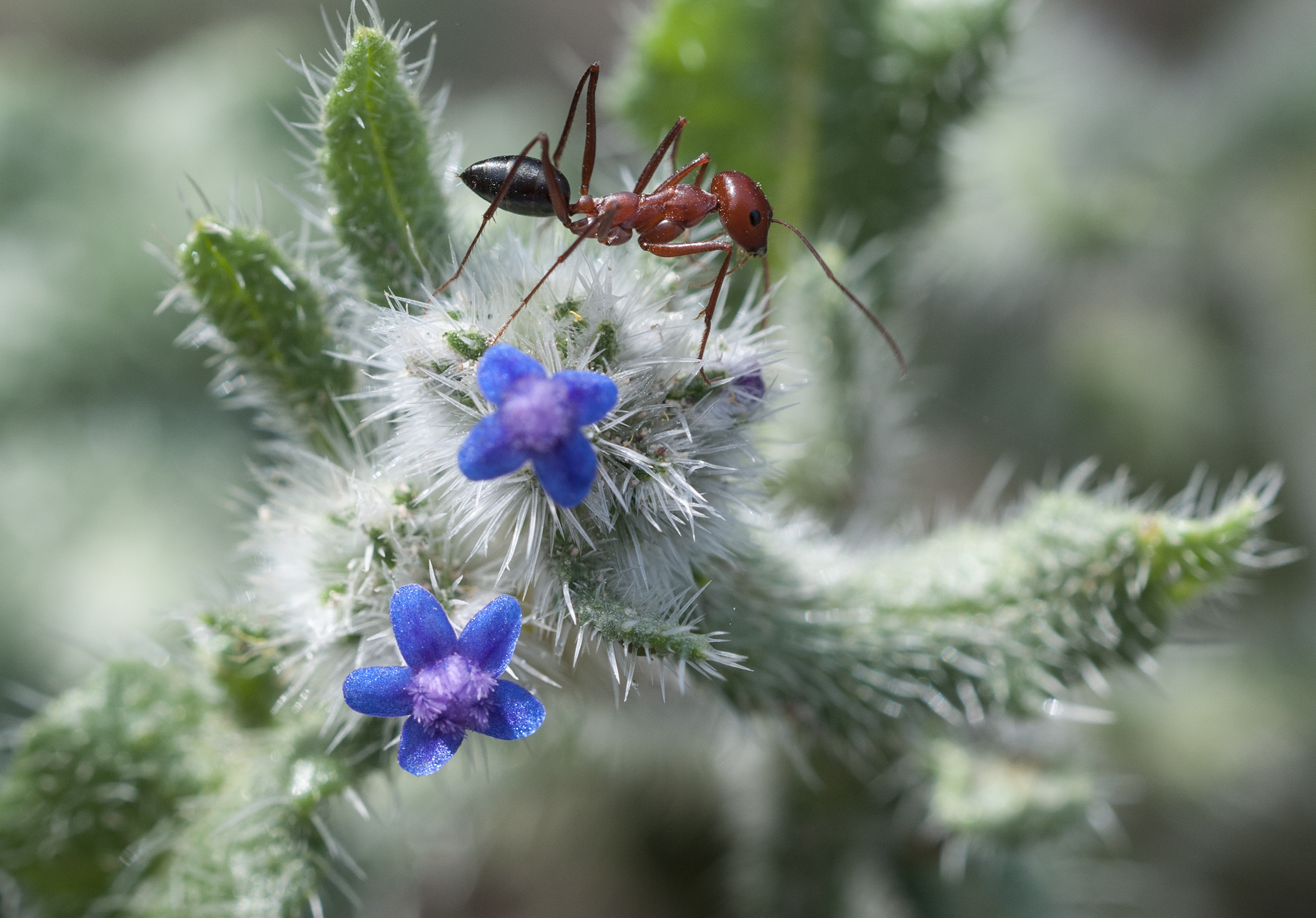 Massed Alkanet (Hormuzakia aggregata) in clearings and roadsides at Akyatan Forest in Karataş, Adana - Turkey.